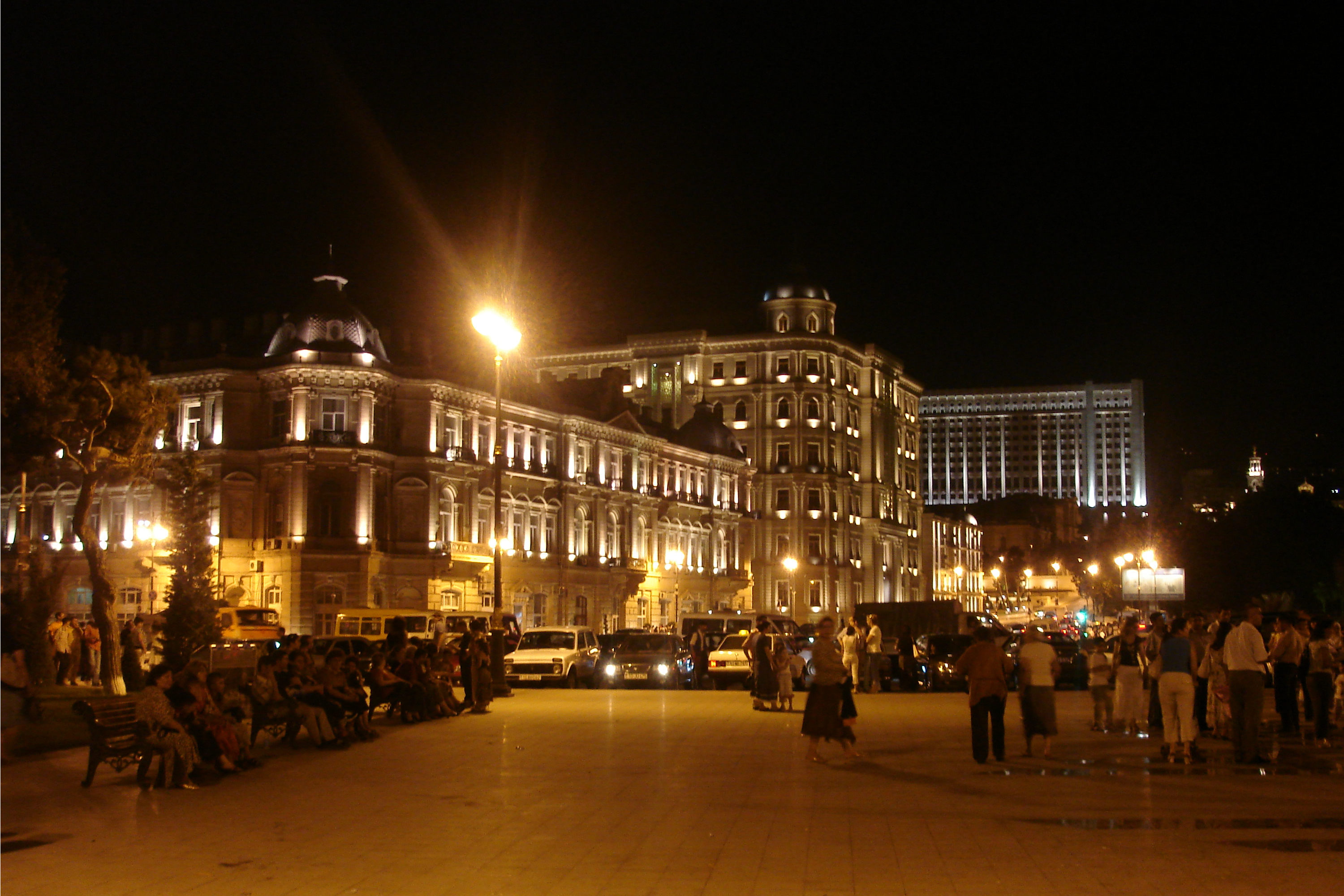 Baku at night